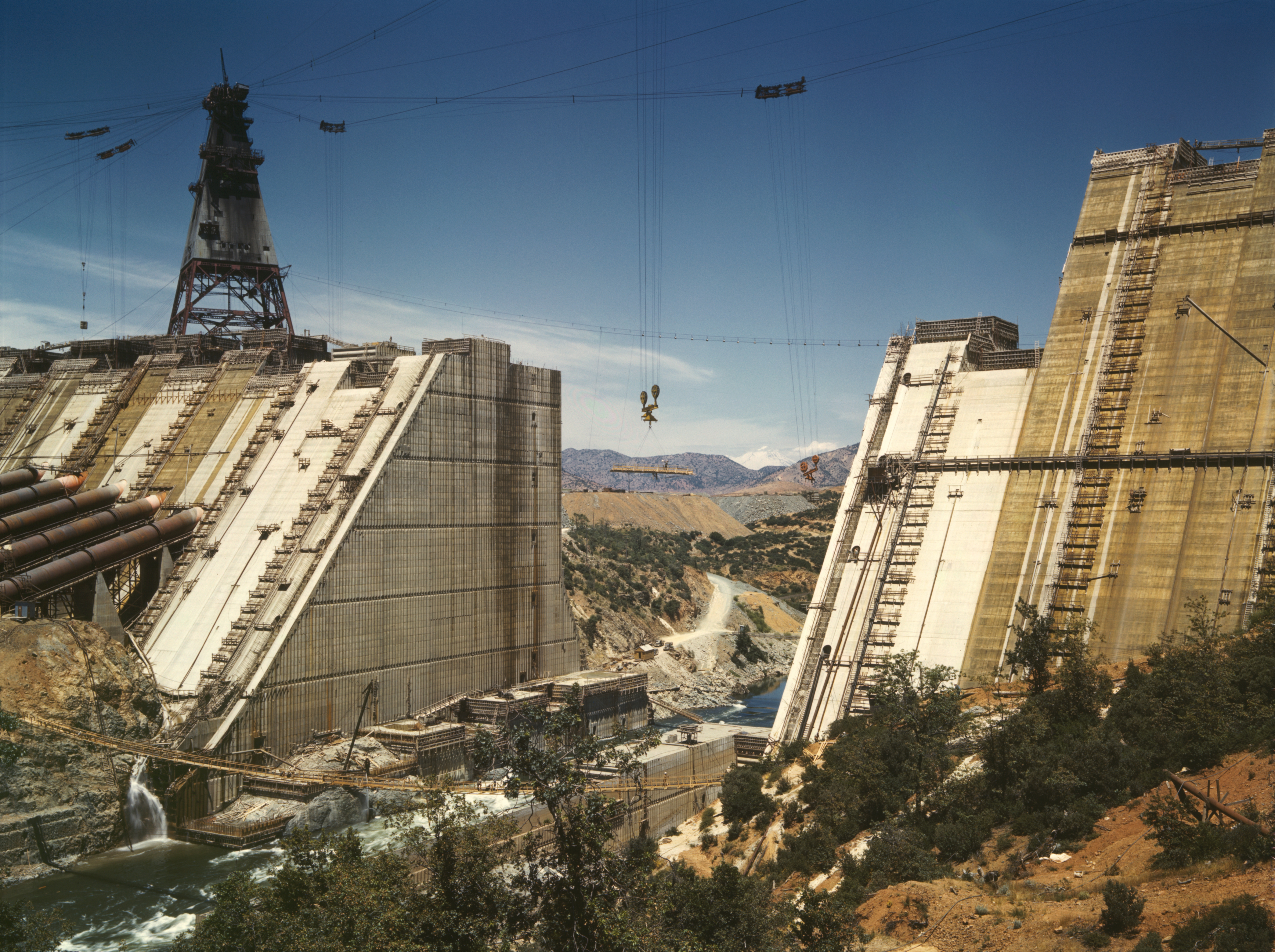 Shasta Dam under construction, California.